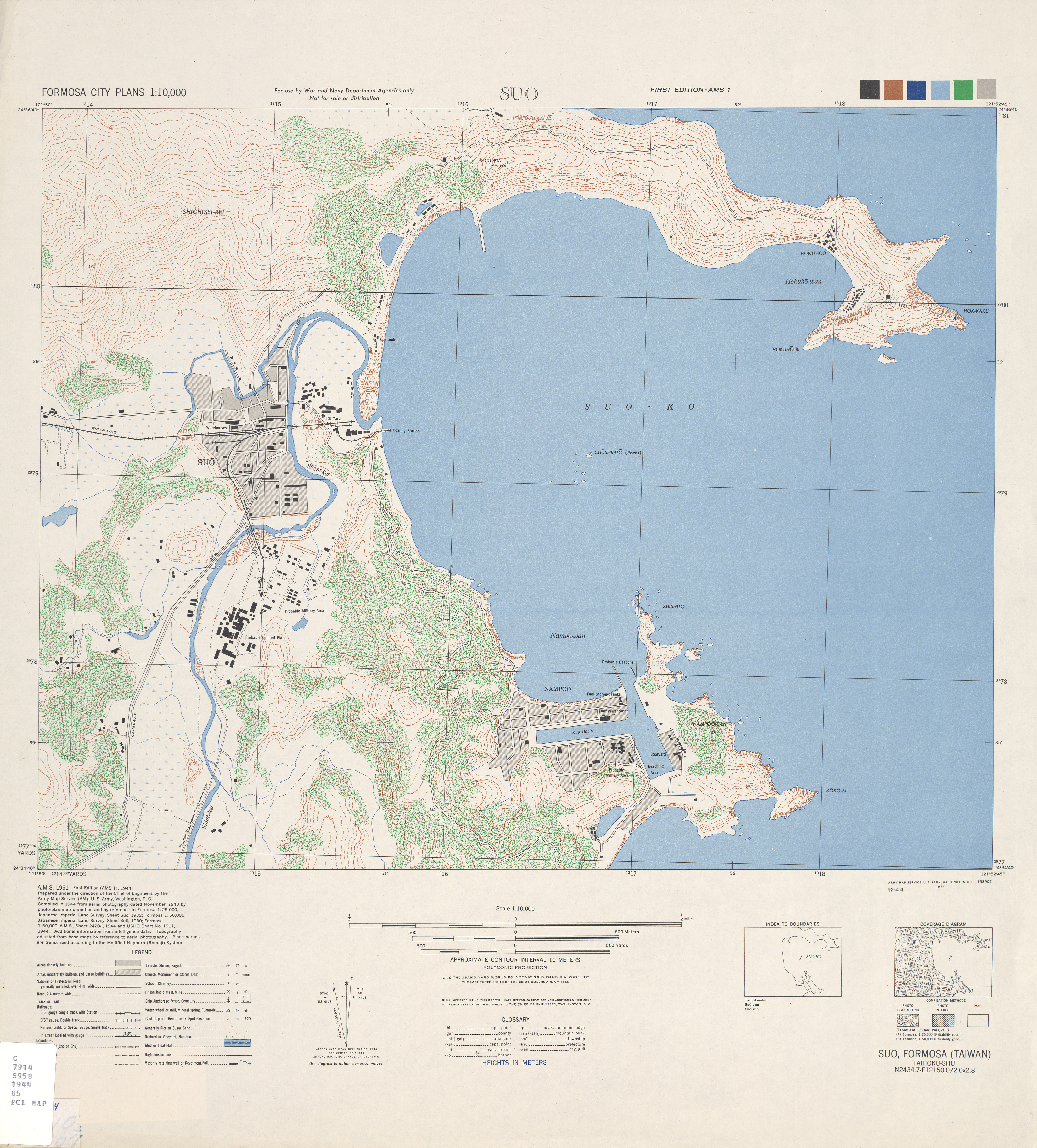 Suo 1:10,000 1944